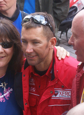 Australian motorcycle racer Troy Bayliss in 2006 with fans.